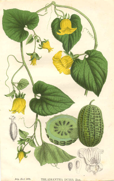 A botanical illustration of the flowering plant species Thladiantha dubia from a work begun by Charles François Antoine Morren and edited by Charles Jacques Édouard Morren